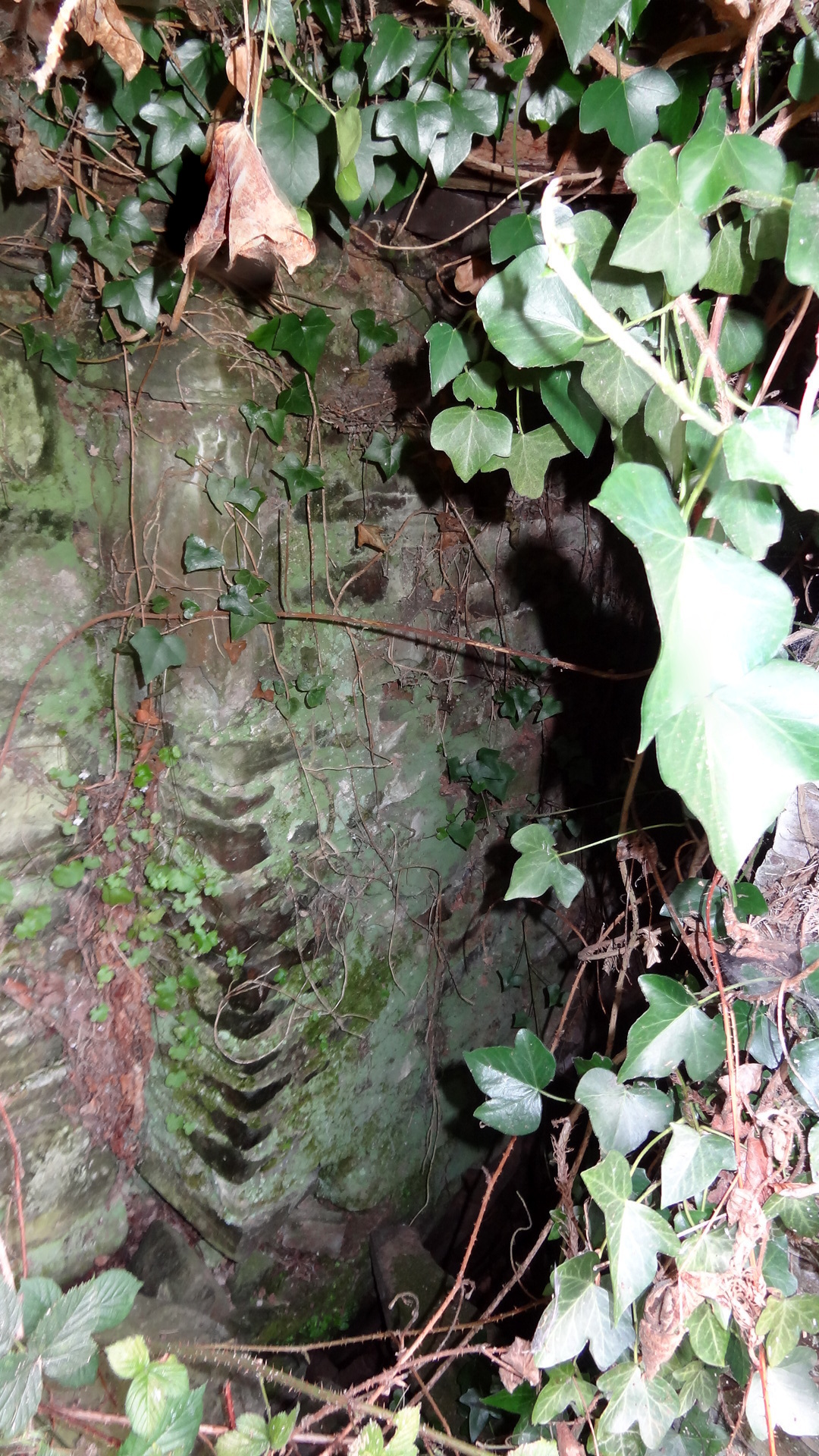 Gwen's well, near Trefeca, Wales